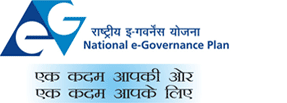 NeGP Logo is available for use and distribution and is taken from Official Website of NeGP